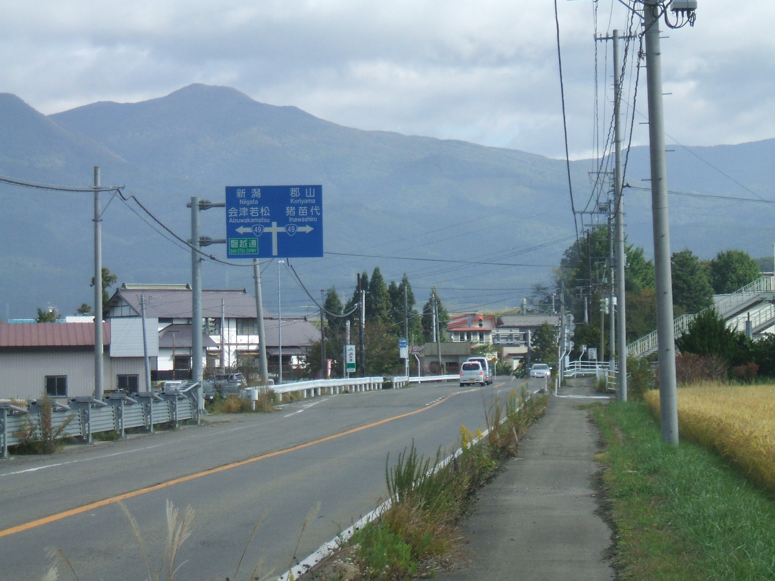 A Landscape of Hatta are of Kawahigashi, Aizuwakamatsu, Fukushima.